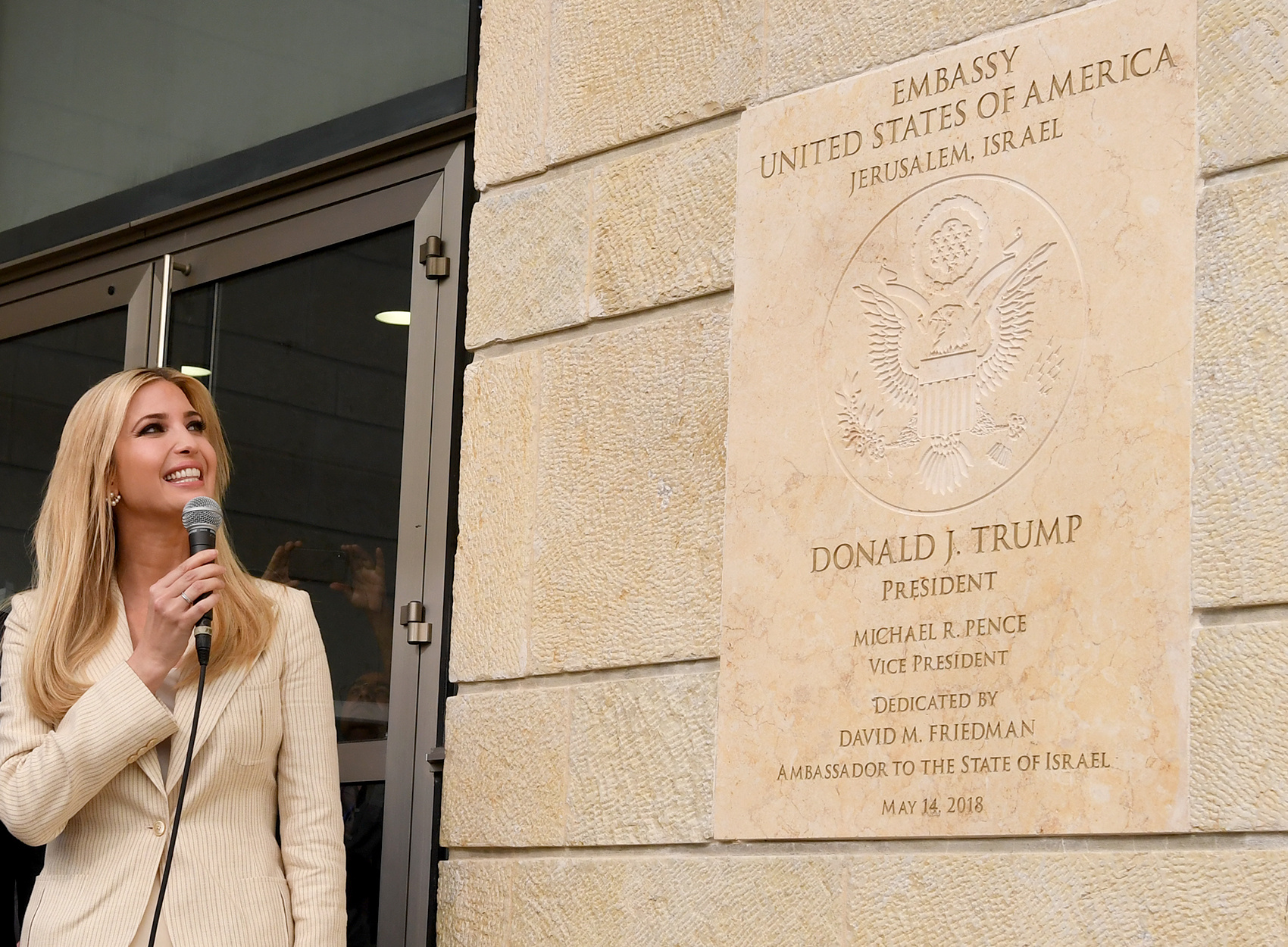 Embassy Dedication Ceremony